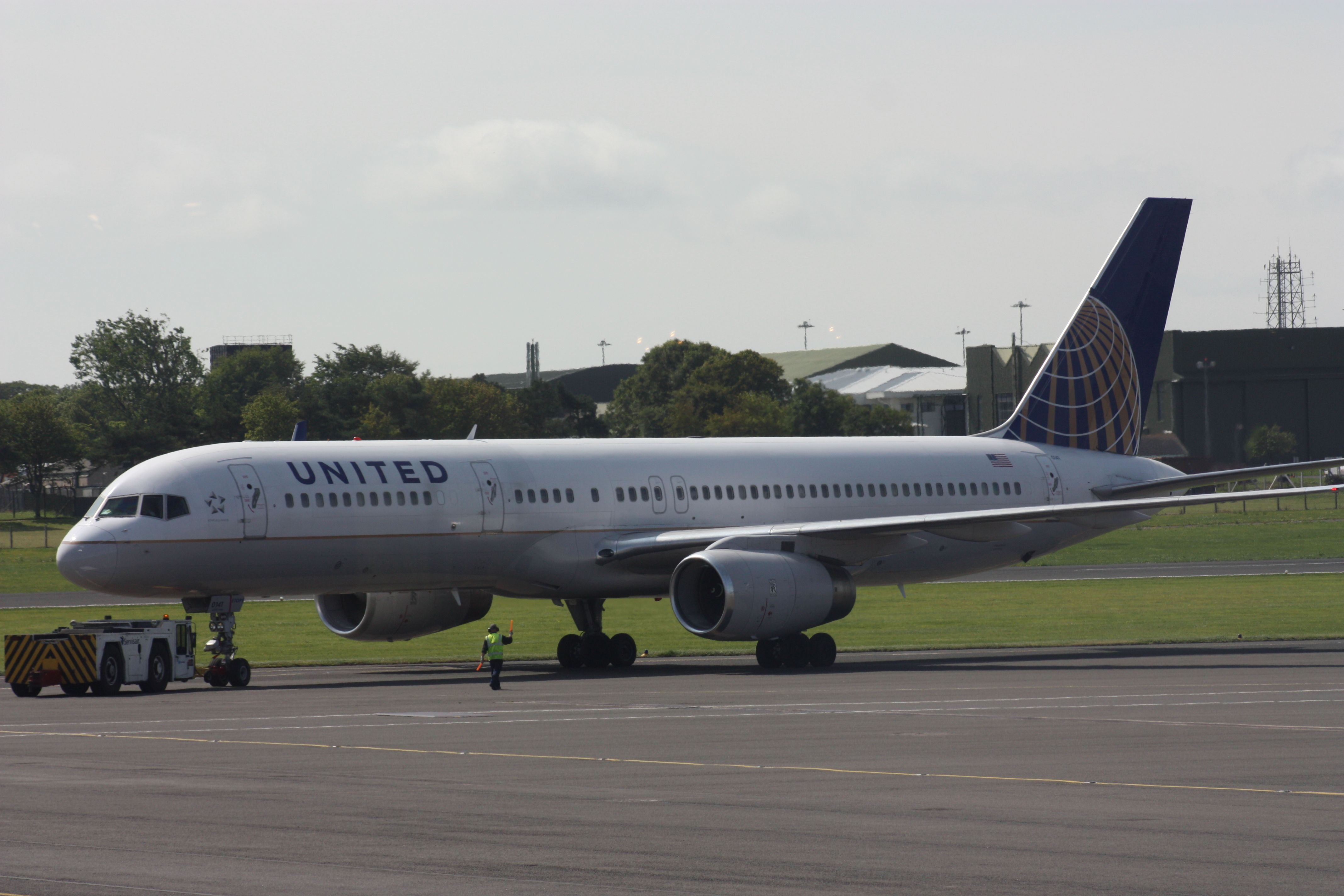 United Airlines (N19141), Boeing 757-200, Belfast International Airport, Aldergrove, County Antrim, Northern Ireland, July 2011